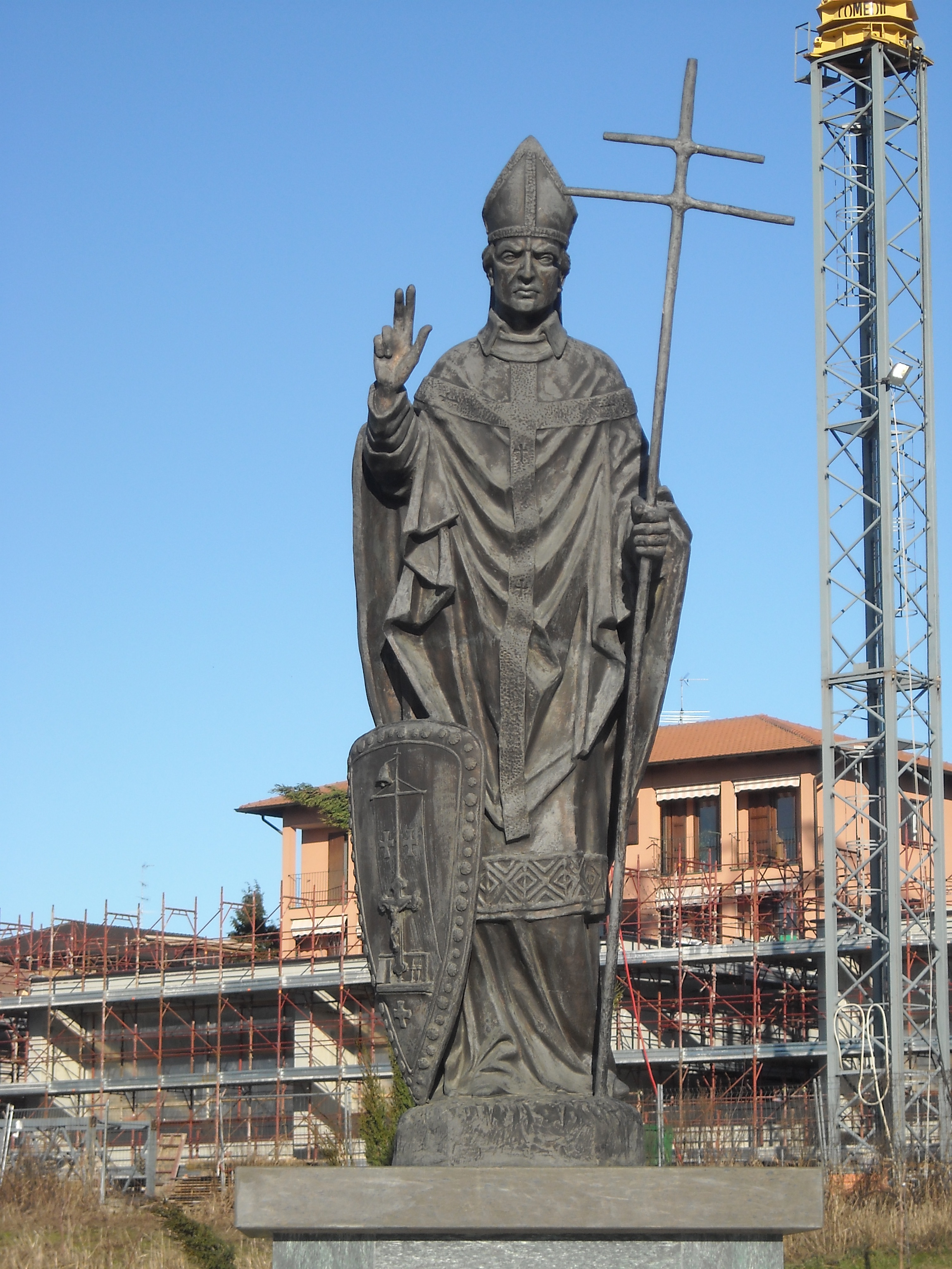 Statue of Ariberto da Intimiano, Intimiano, Como, Italy